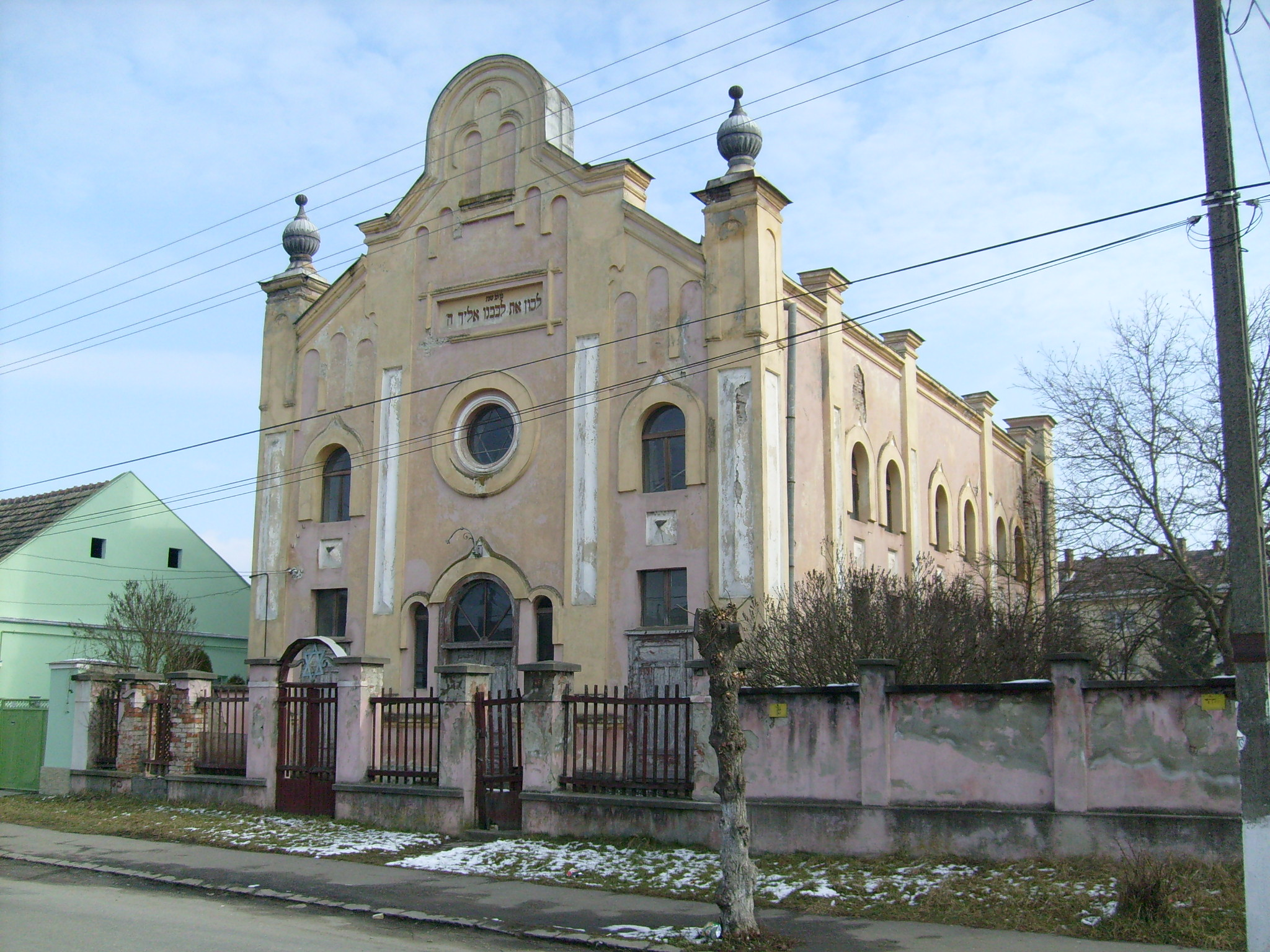 Gherla Synagogue.